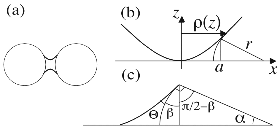 Notations on a capillary bridge between two spheres used for the wikipedia article "Cohesion entre deux grains de sable".